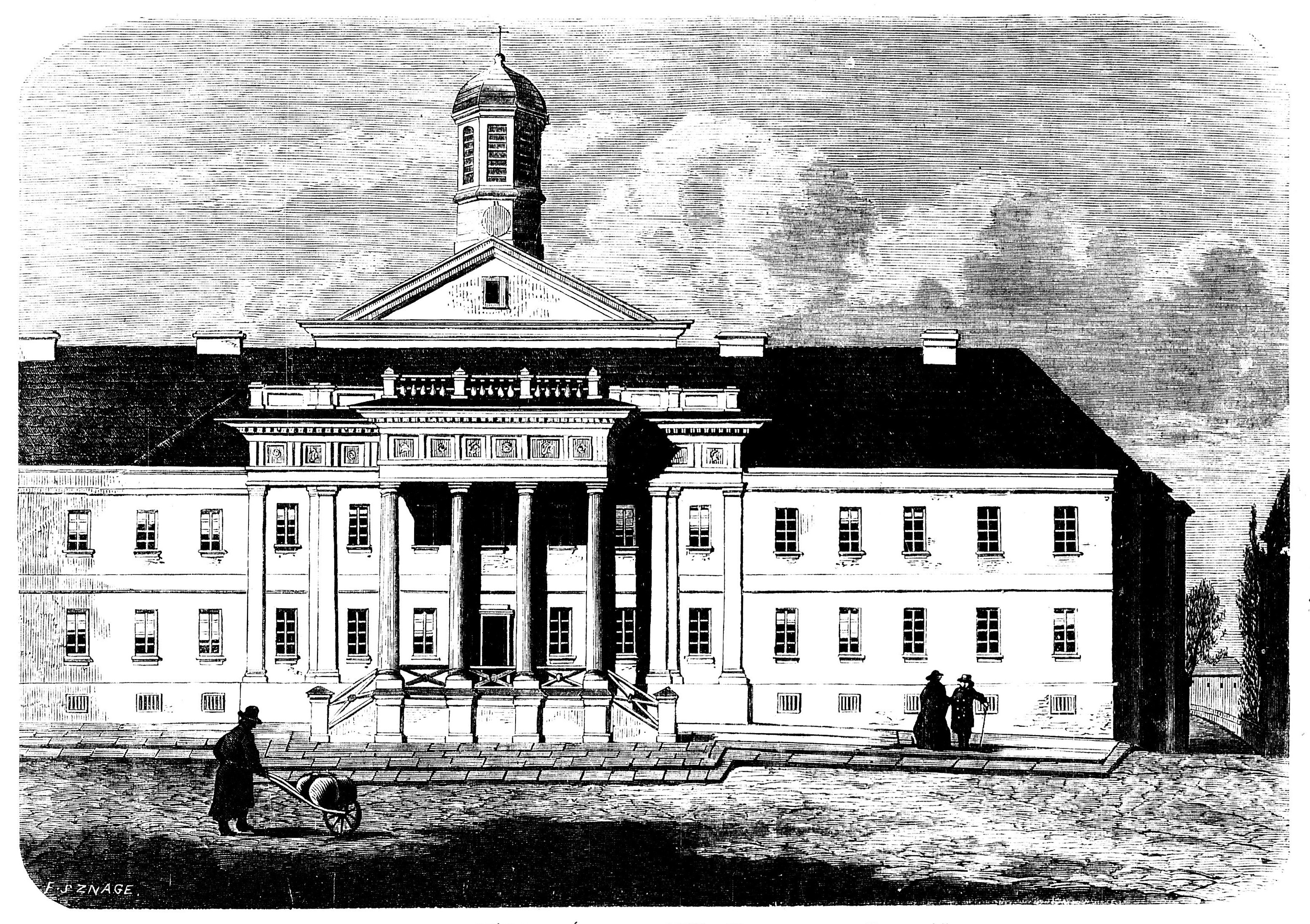 Piarist school in Radom in Poland (1864)